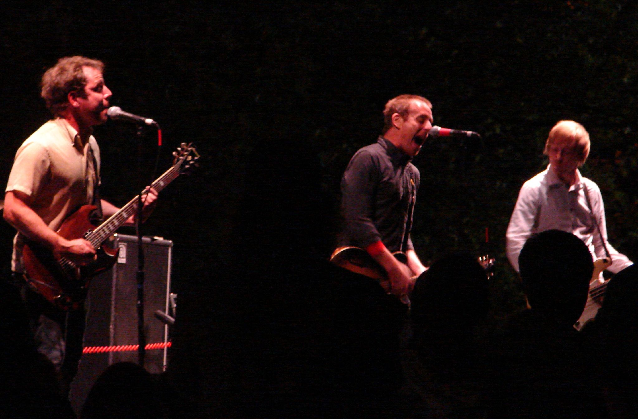 Ted Leo and the Pharmacists performing at the Bumbershoot festival in Seattle, Washington on September 3, 2007.